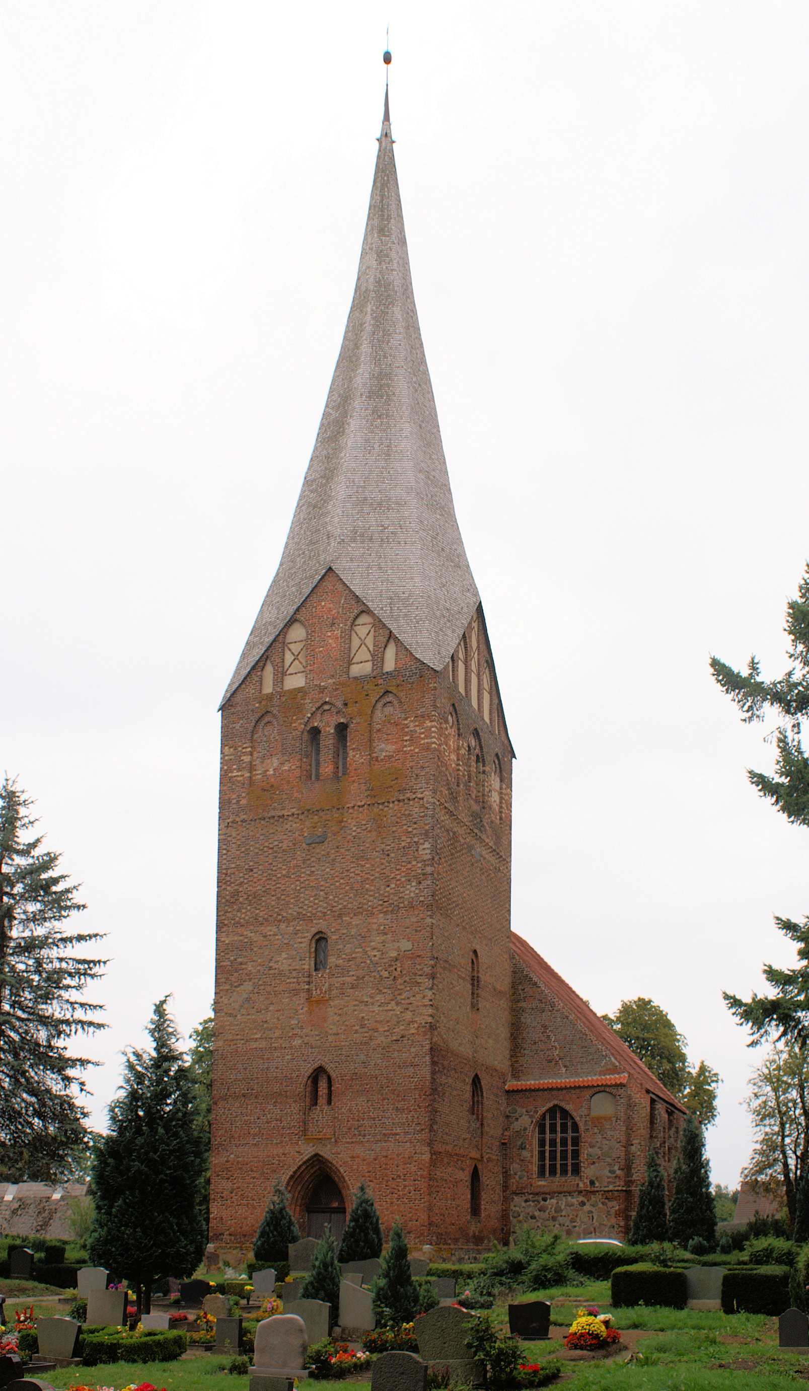 Church in Wusterhusen - Landkreis Ostvorpommern - Germany